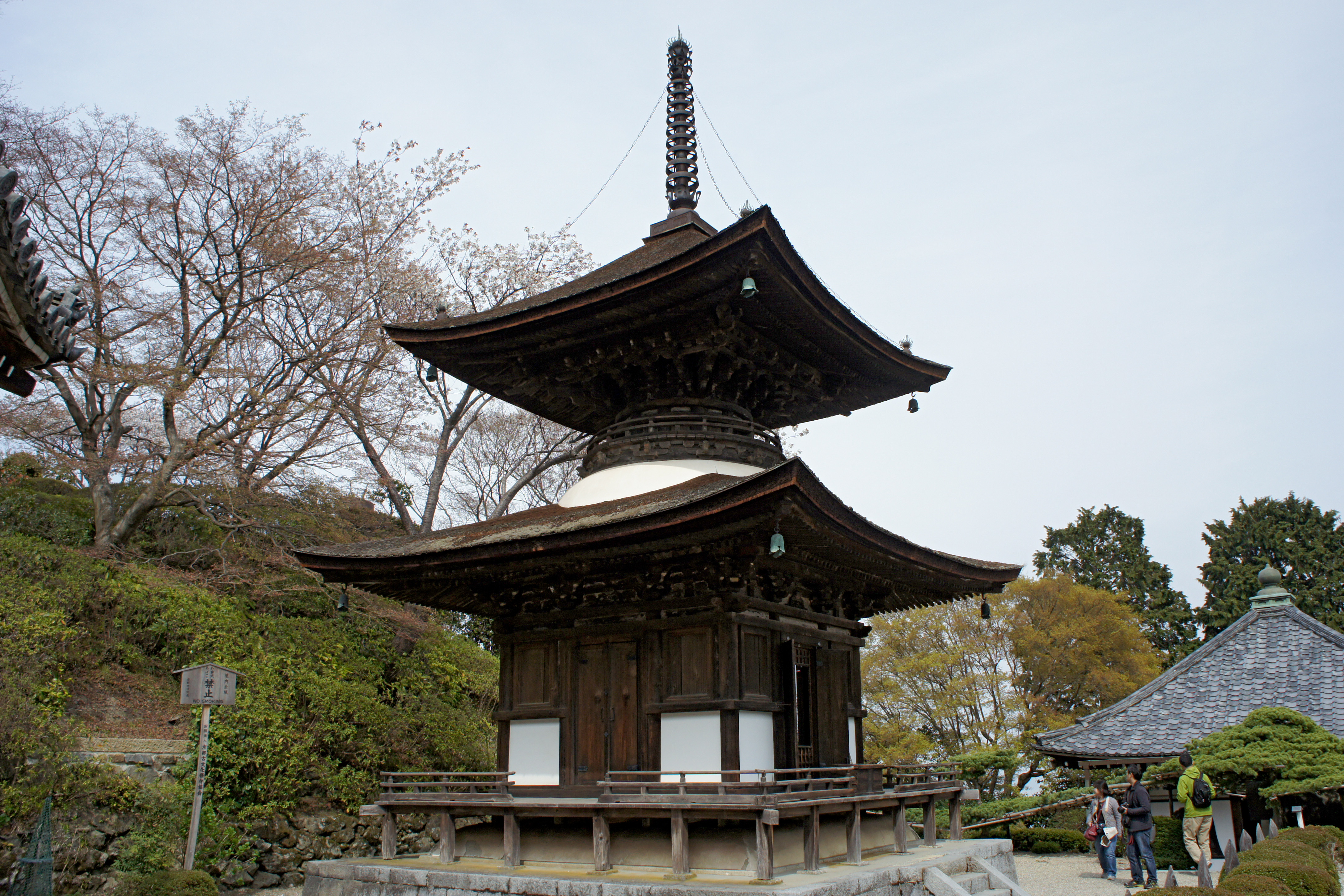 Yoshimine-dera in Kyoto, Kyoto prefecture, Japan